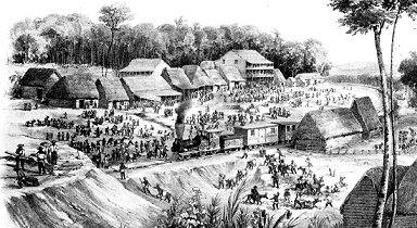 View of Culebra or the Summit, the Terminus of the Panama Railroad in Dec. 1854.